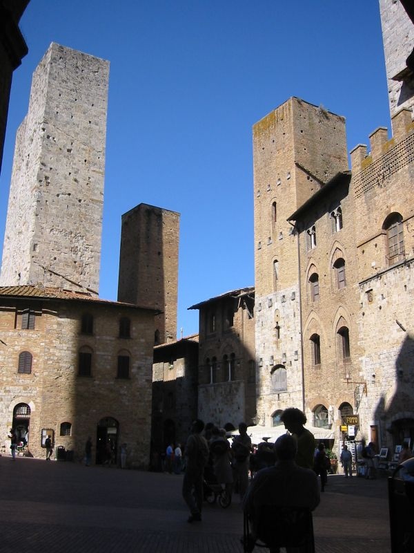 San Gimignano